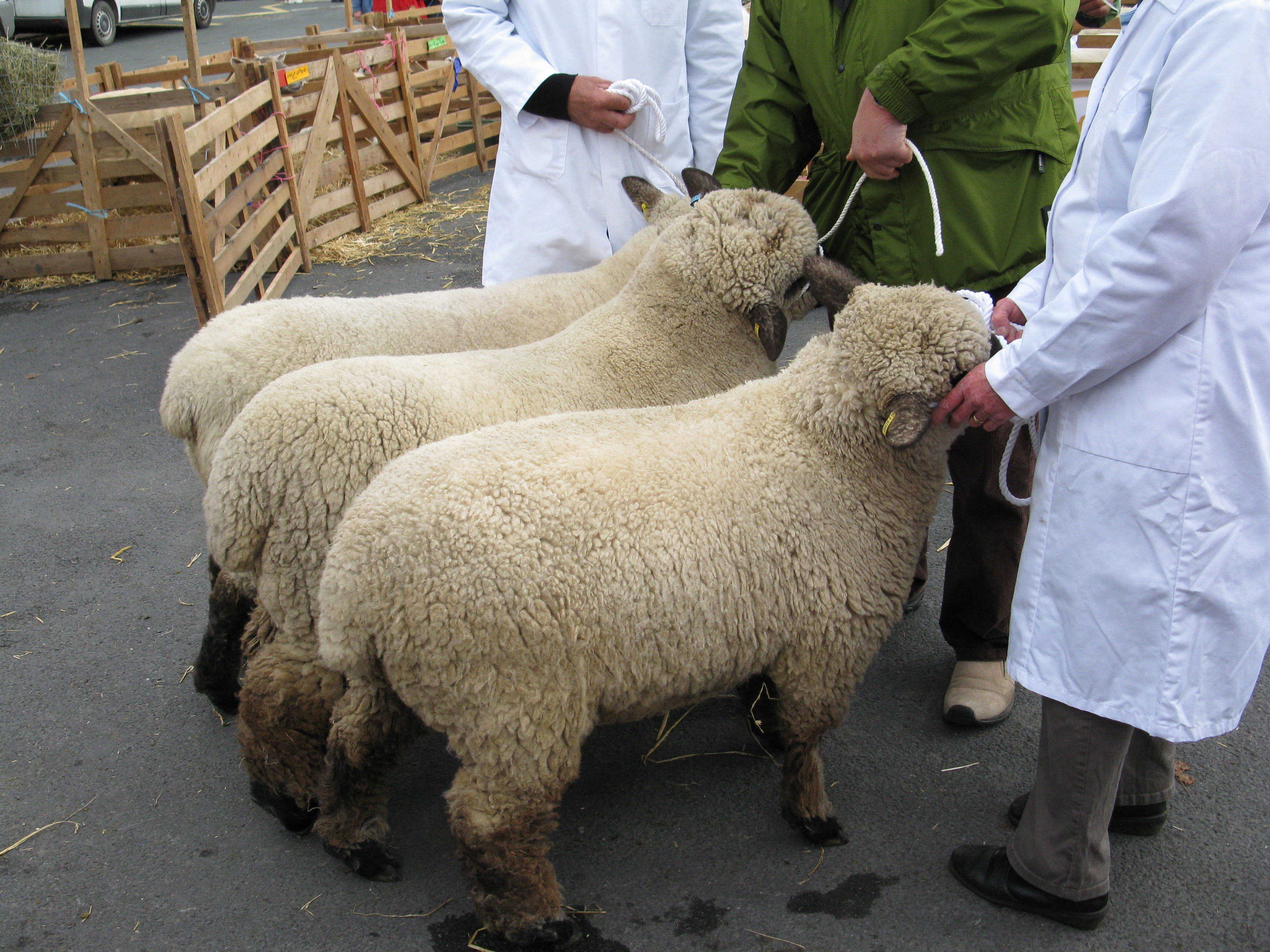 Oxford Down sheep being judged at Masham Sheep Fair 2010